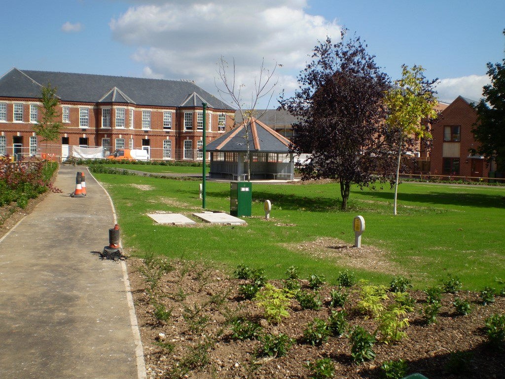 Part of Park Prewett refurbished for housing